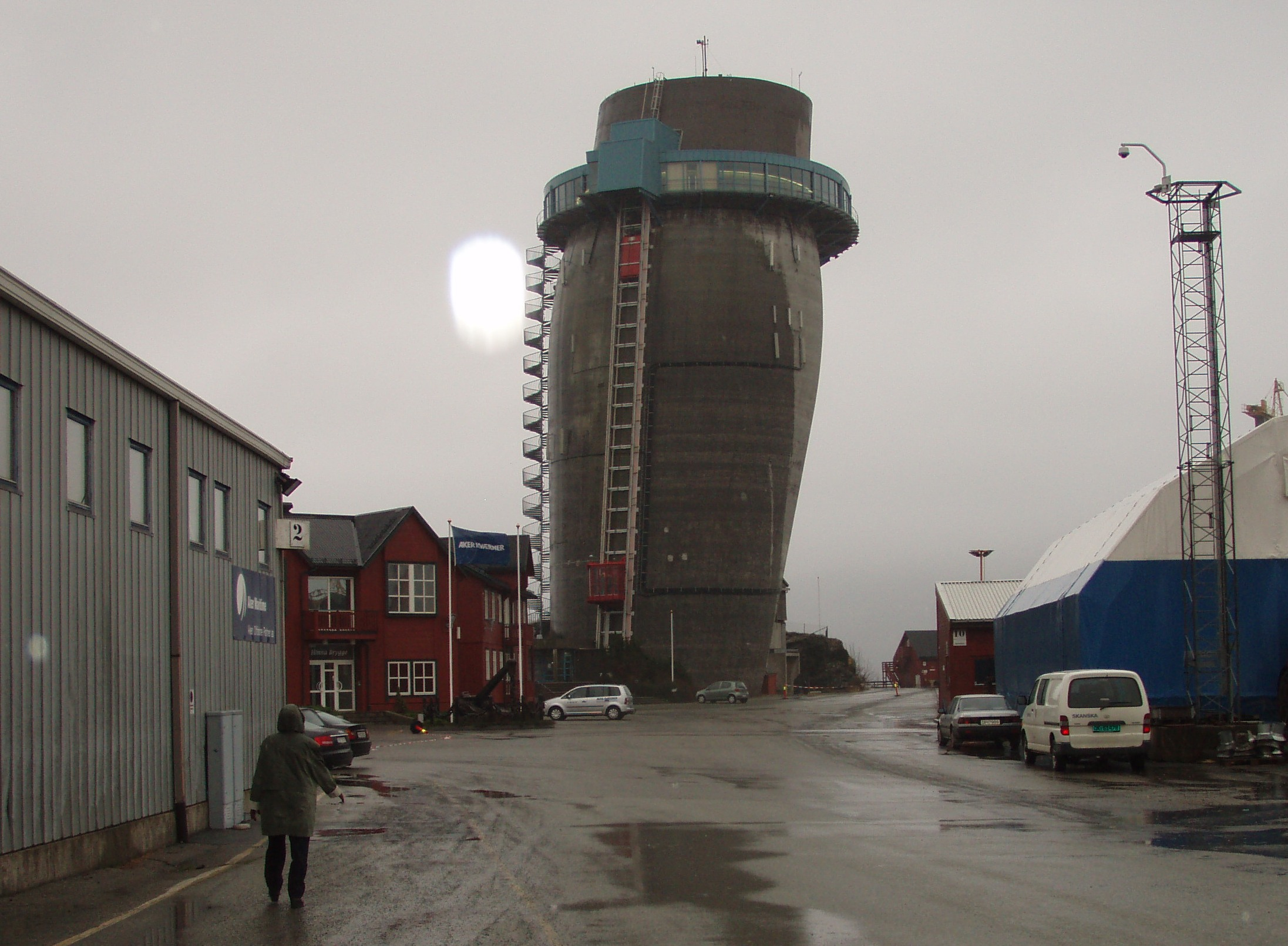 The leaning tower of Jåttåvågen, Stavanger, Norway